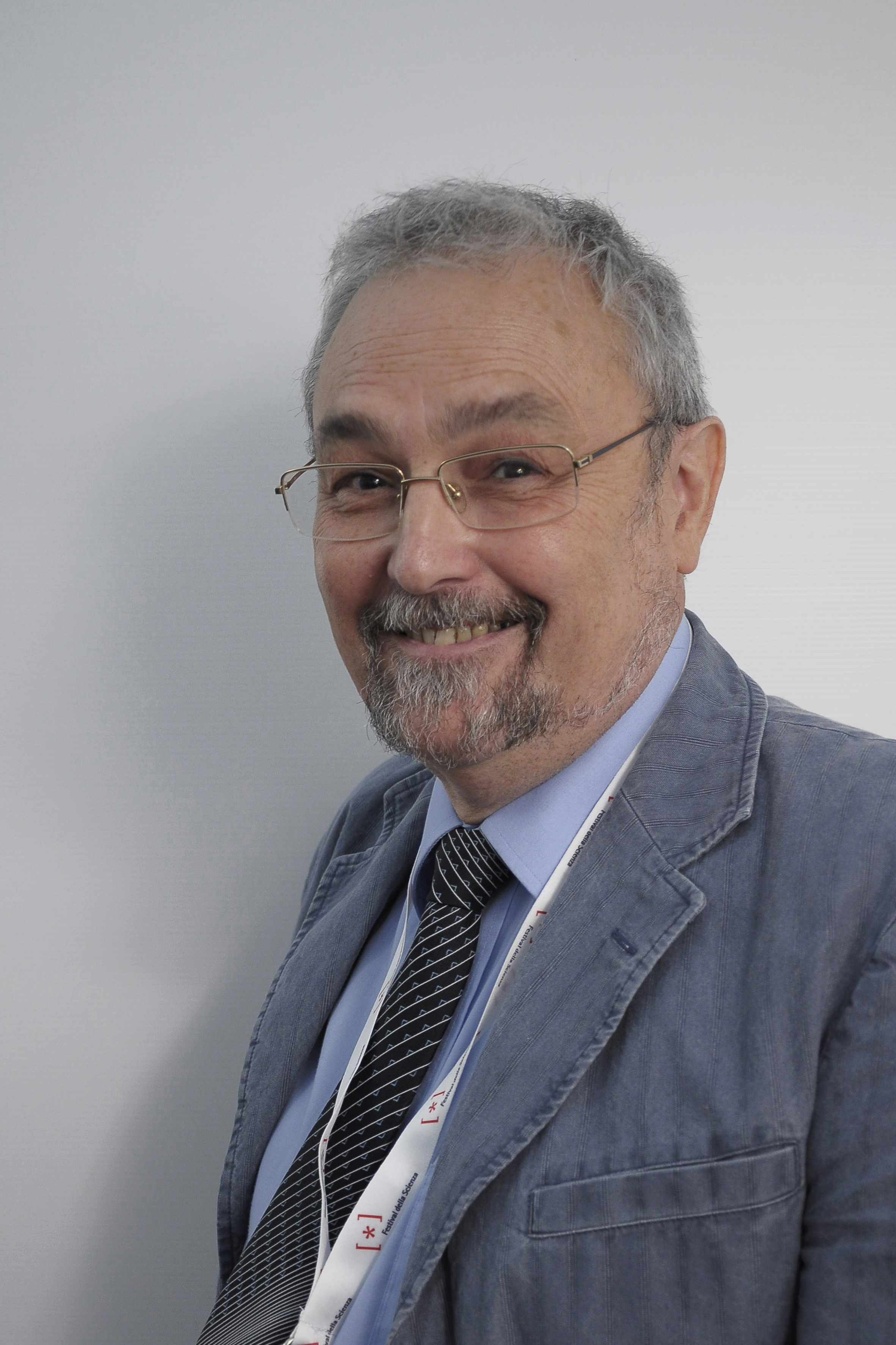 Robin Dunbar by Cirone-Musi via Cirone-Musi